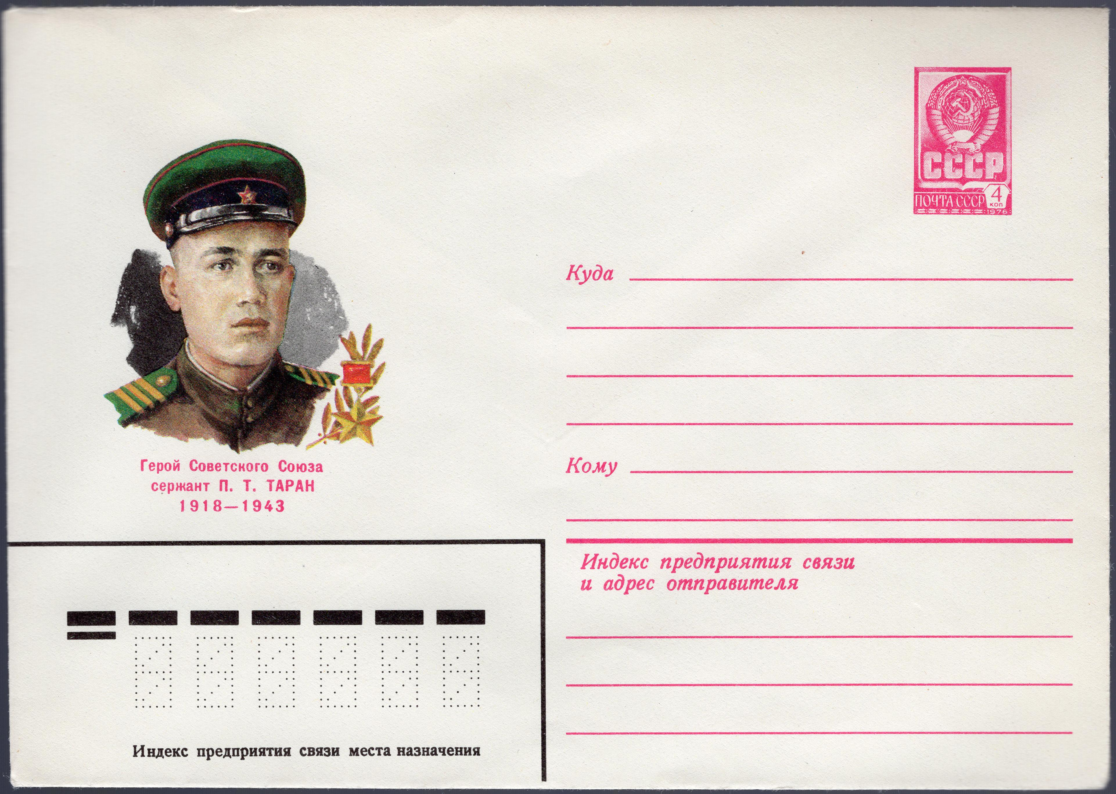 Hero of the Soviet Union Sergeant Pyotr Taran. 1918-1943. Series: Heroes of the Soviet Union. Artist Peter Bendel.